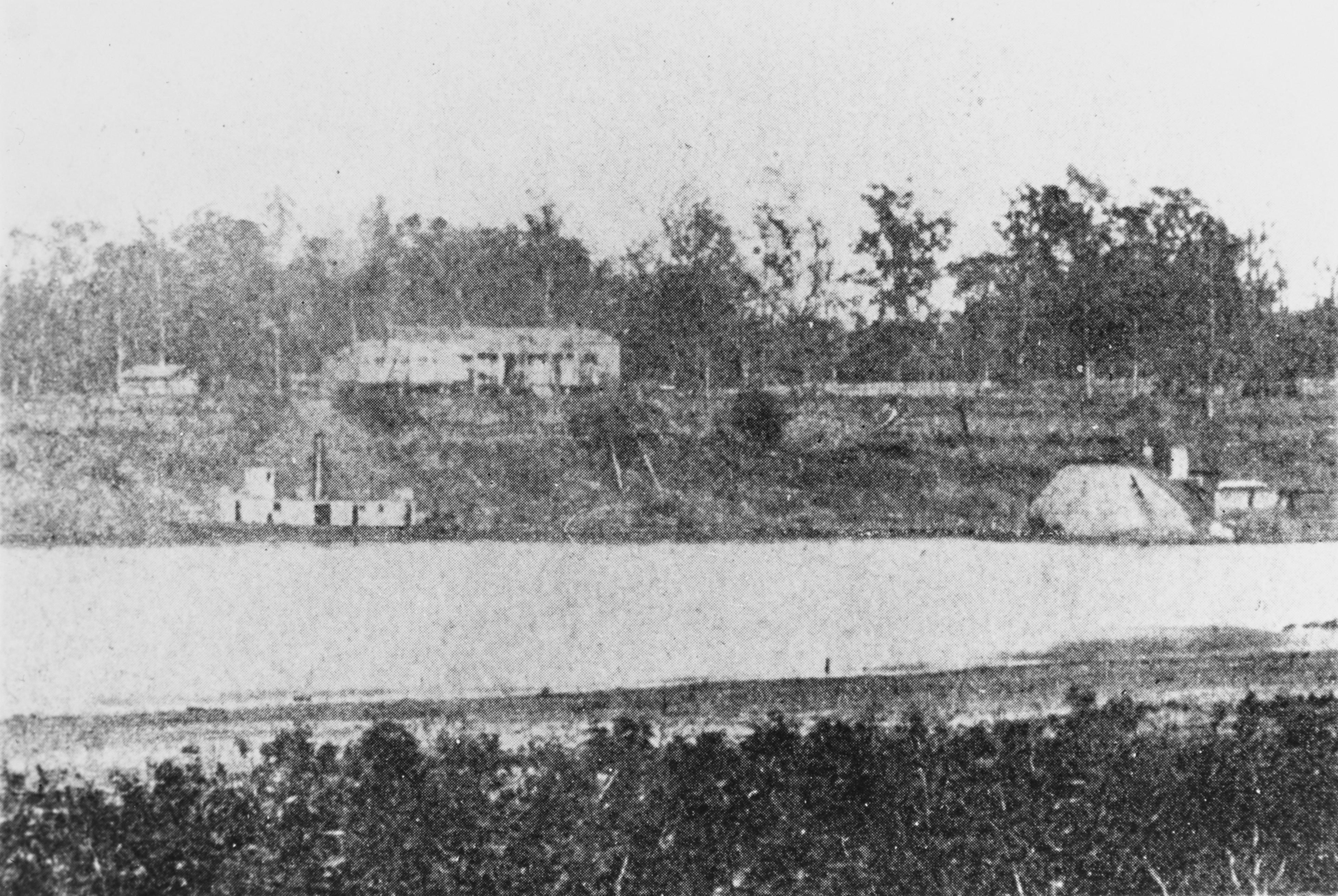 (left) Moored to the river bank above the falls at Alexandria, Louisiana, during the Red River campaign, circa May 1864. USS Neosho (1863-1873) is at right. Courtesy of Frederick Way, Jr., 1941. U.S. Naval History and Heritage Command Photograph.